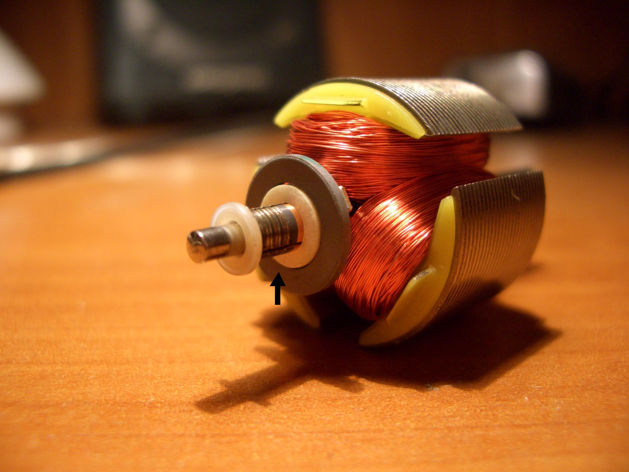 Armature of the small electric motor. The commutator is shown by an arrow, traces of its deterioration are visible